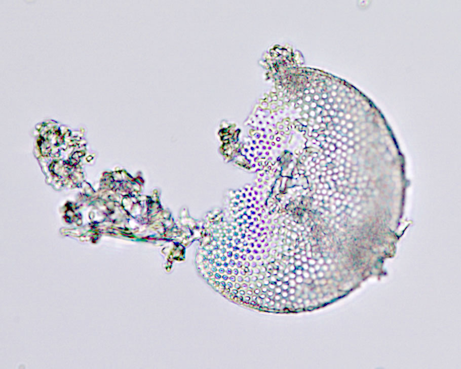 Diatom test in commercial diatomaceous earth for swimming pool filters